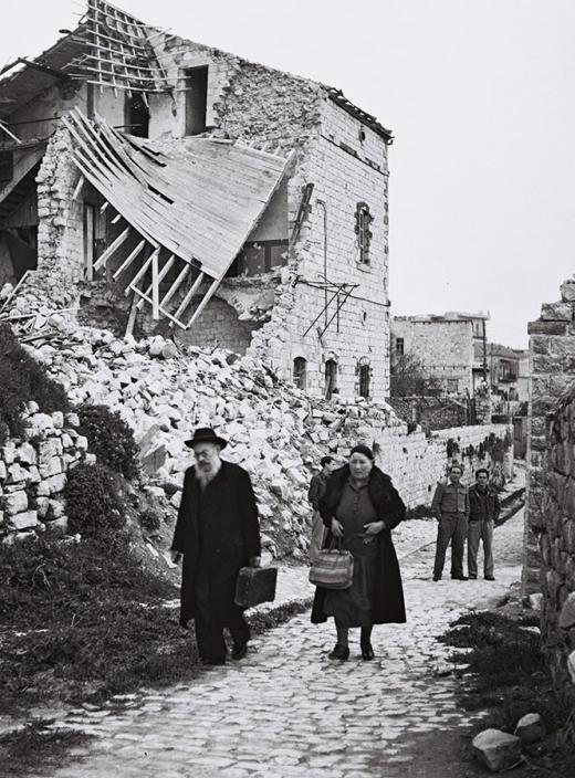 Destruction in the Jewish Quater of Safed during the 1948 Arab-Israeli war